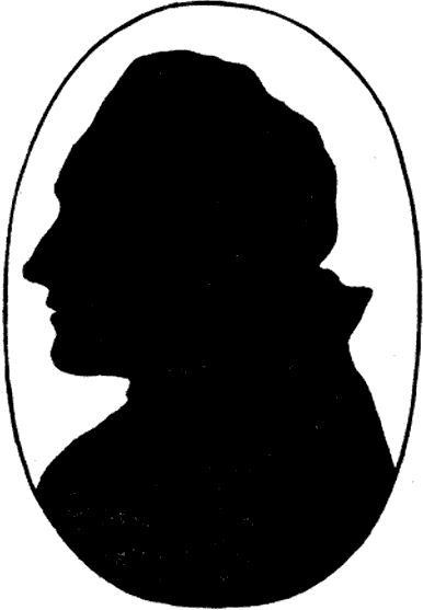 Goethe’s facial profile in a silhouette